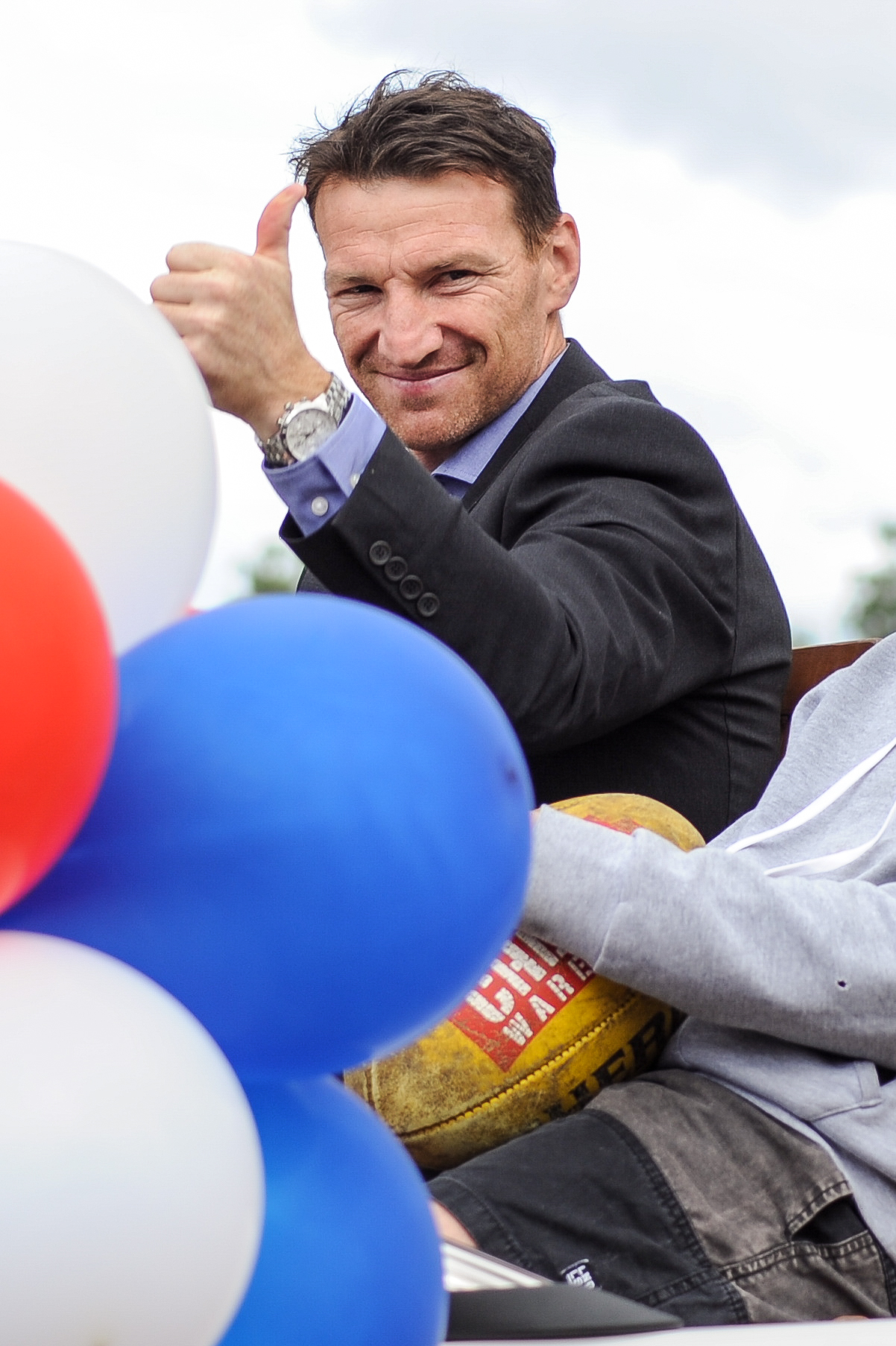 Brent Harvey at the 2017 AFL Grand Final parade on 29 September 2017 in Melbourne, Victoria.